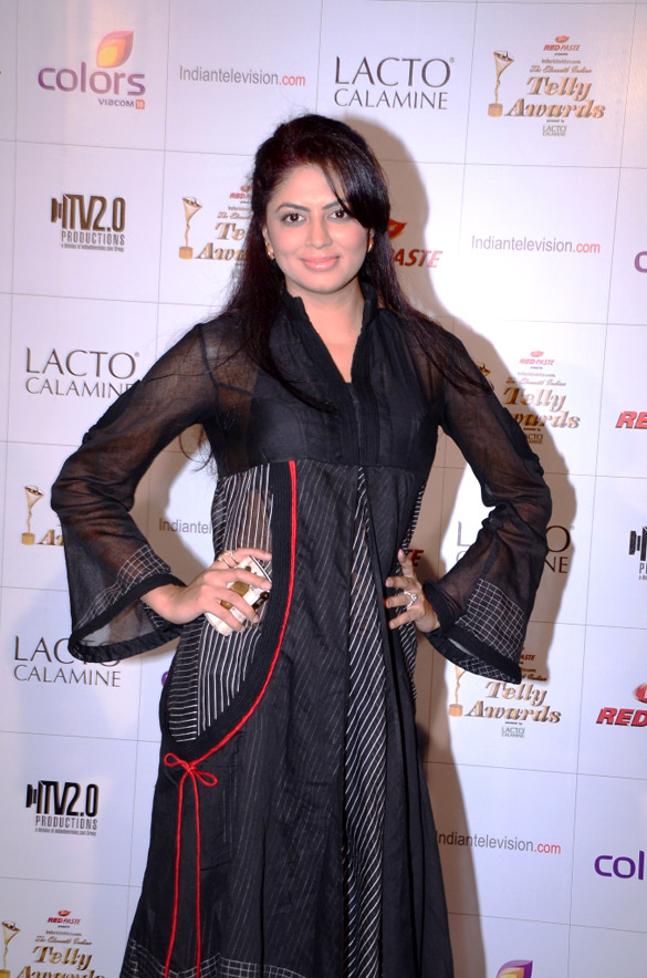 colors indian telly awards